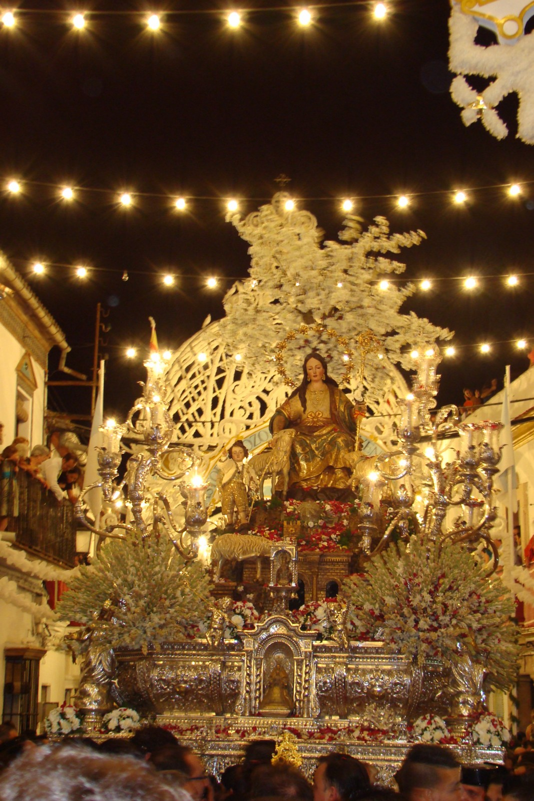 La Divina Pastora en la calle Martín Rey donde es despojada de su sombrero.